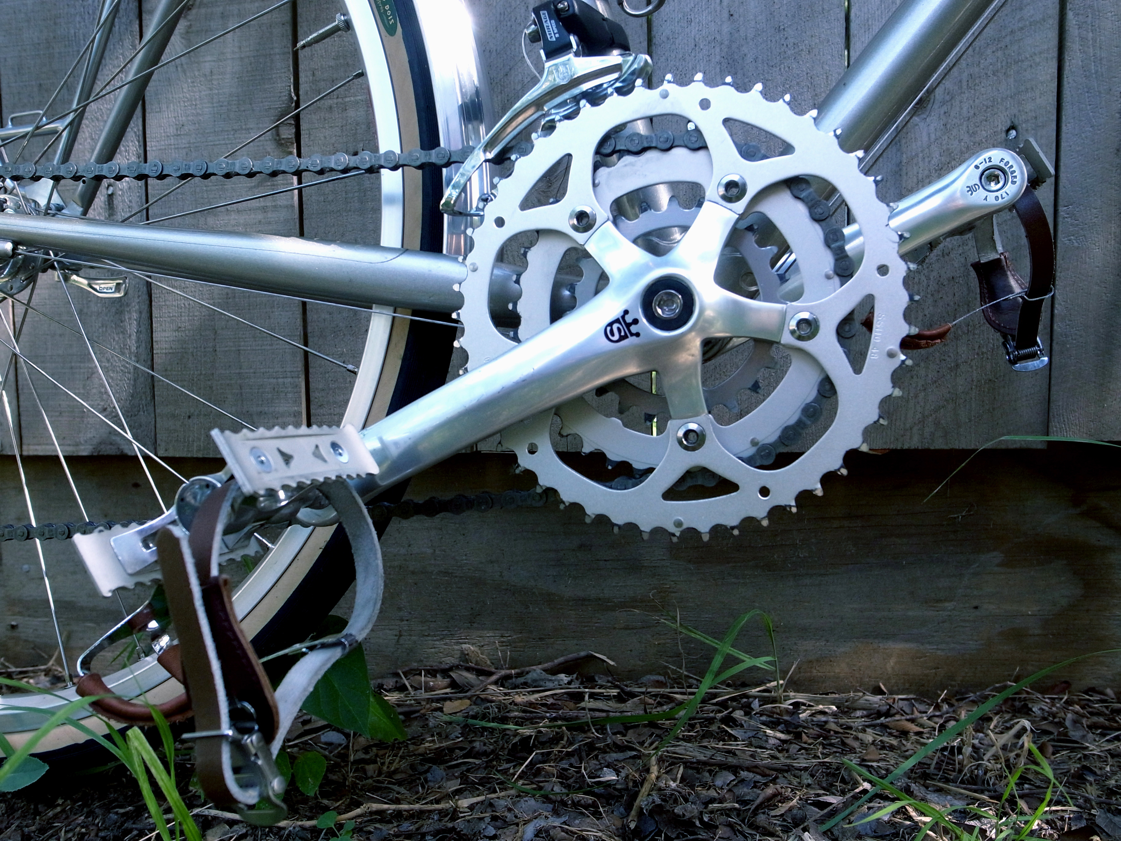 Blériot by Rivendall Bicycle Works